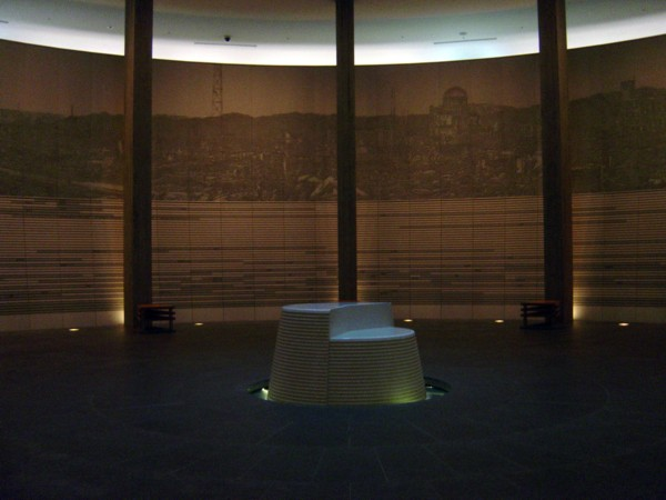 This is a picture of the Hall of Remembrance in the Hiroshima National Peace Memorial Hall for the Atomic Bomb Victims in Hiroshima, Japan.